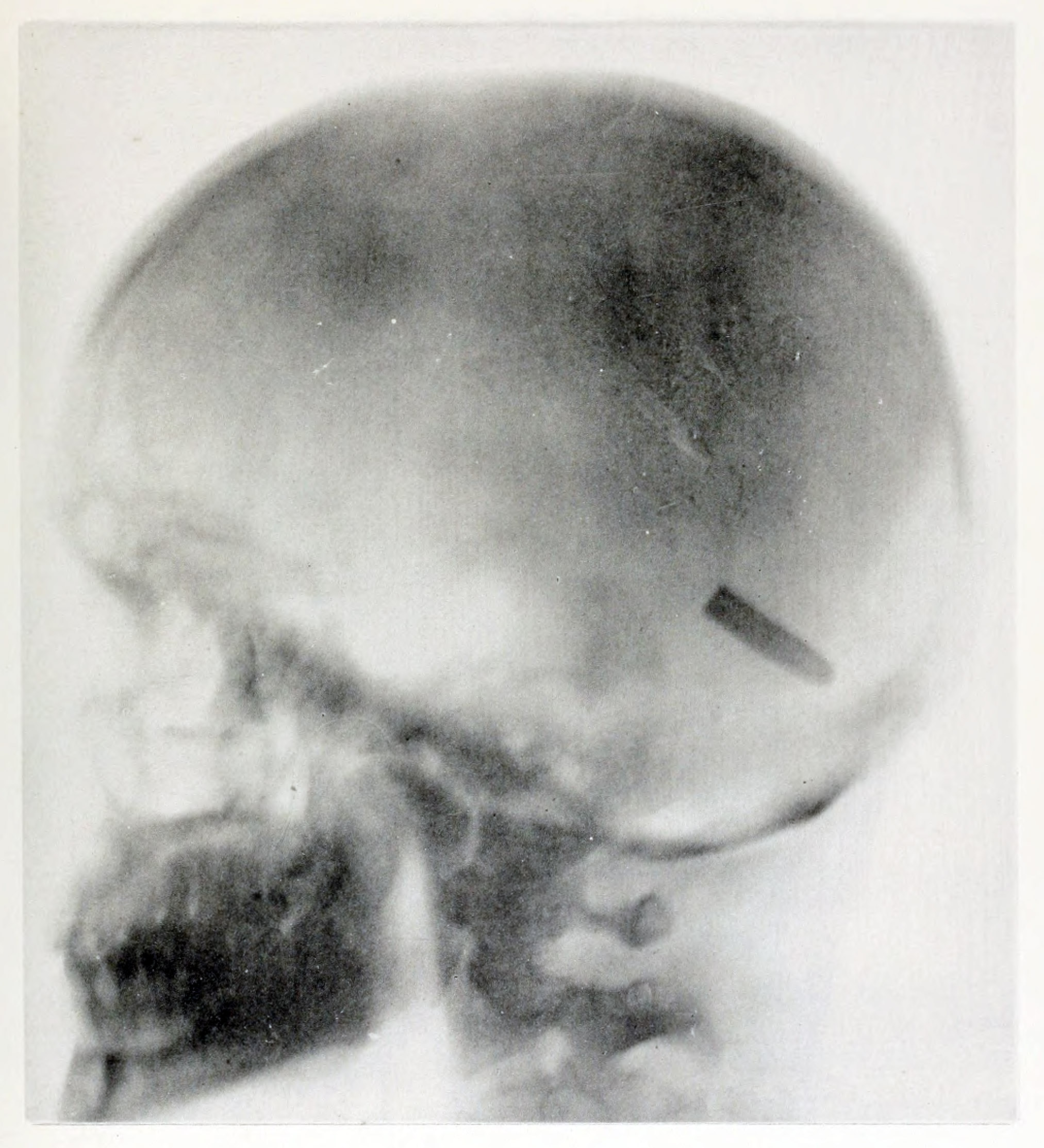 John Gretzer Jr., private, Company D, First Nebraska Volunteers. Wounded by a Mauser bullet on March 27, 1899, in the Philippine Islands during the Spanish-American War. Radiograph of the left side, showing a Mauser bullet lodged in the brain in the region of the left occipital lobe. Taken August 20, 1899, by Elizabeth Fleischman.